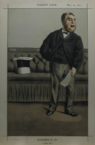 Caricature of George Cavendish-Bentinck (1821-1891). Caption read "Little Ben".